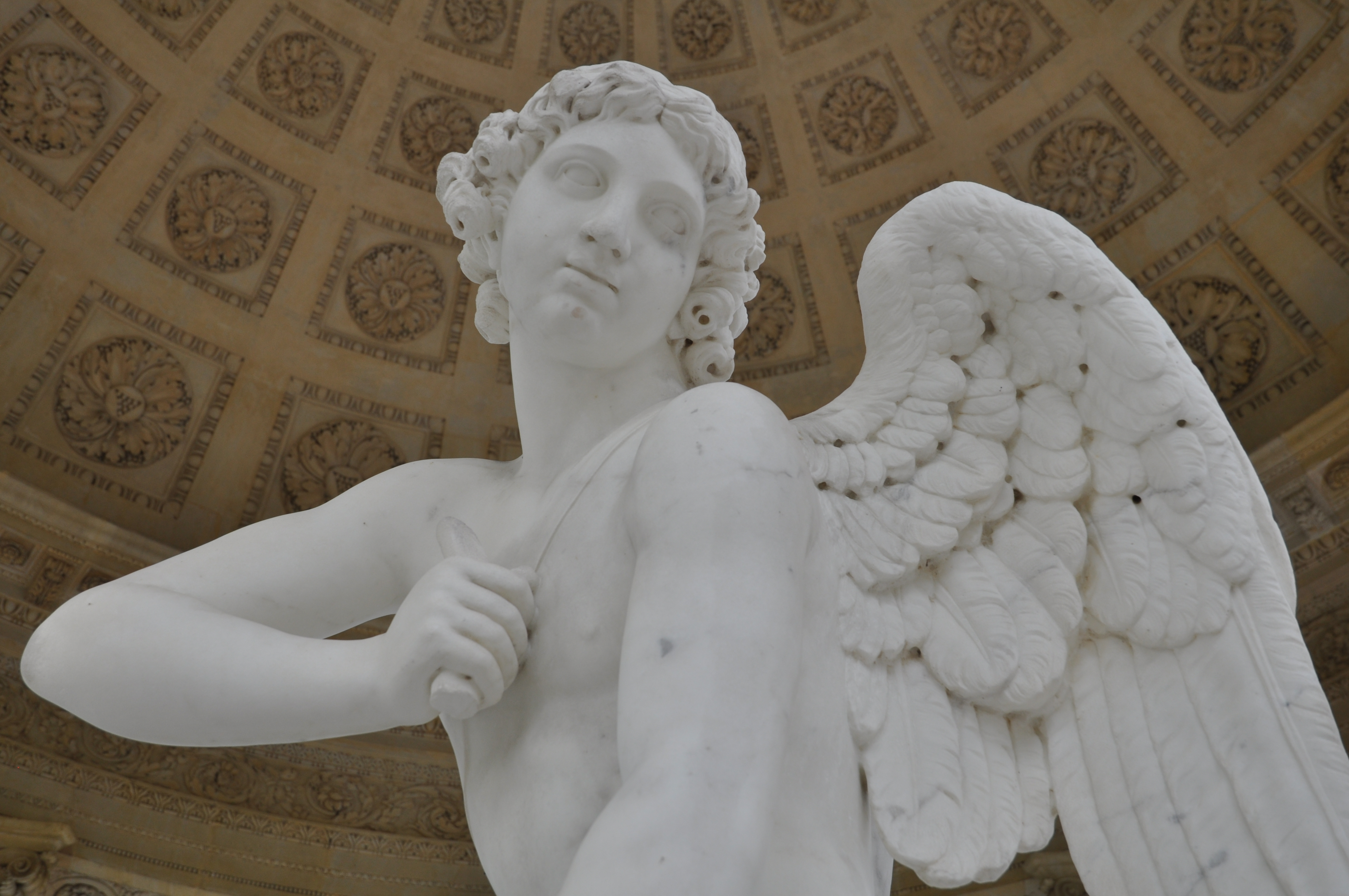 Amour in the "Temple de l'Amour" (Cupid's Temple), Petit Trianon.